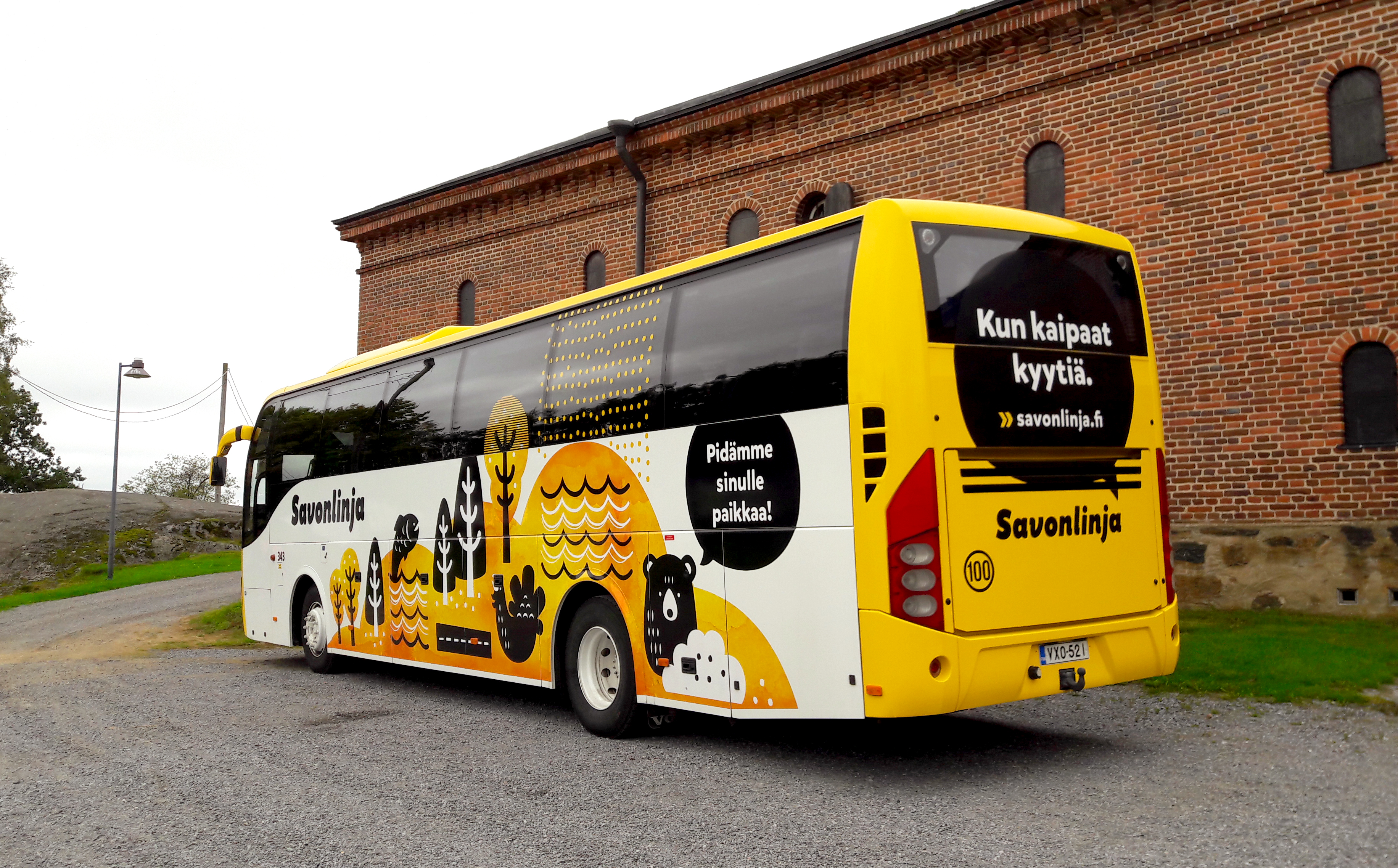 Savonlinja bus in Savonlinna